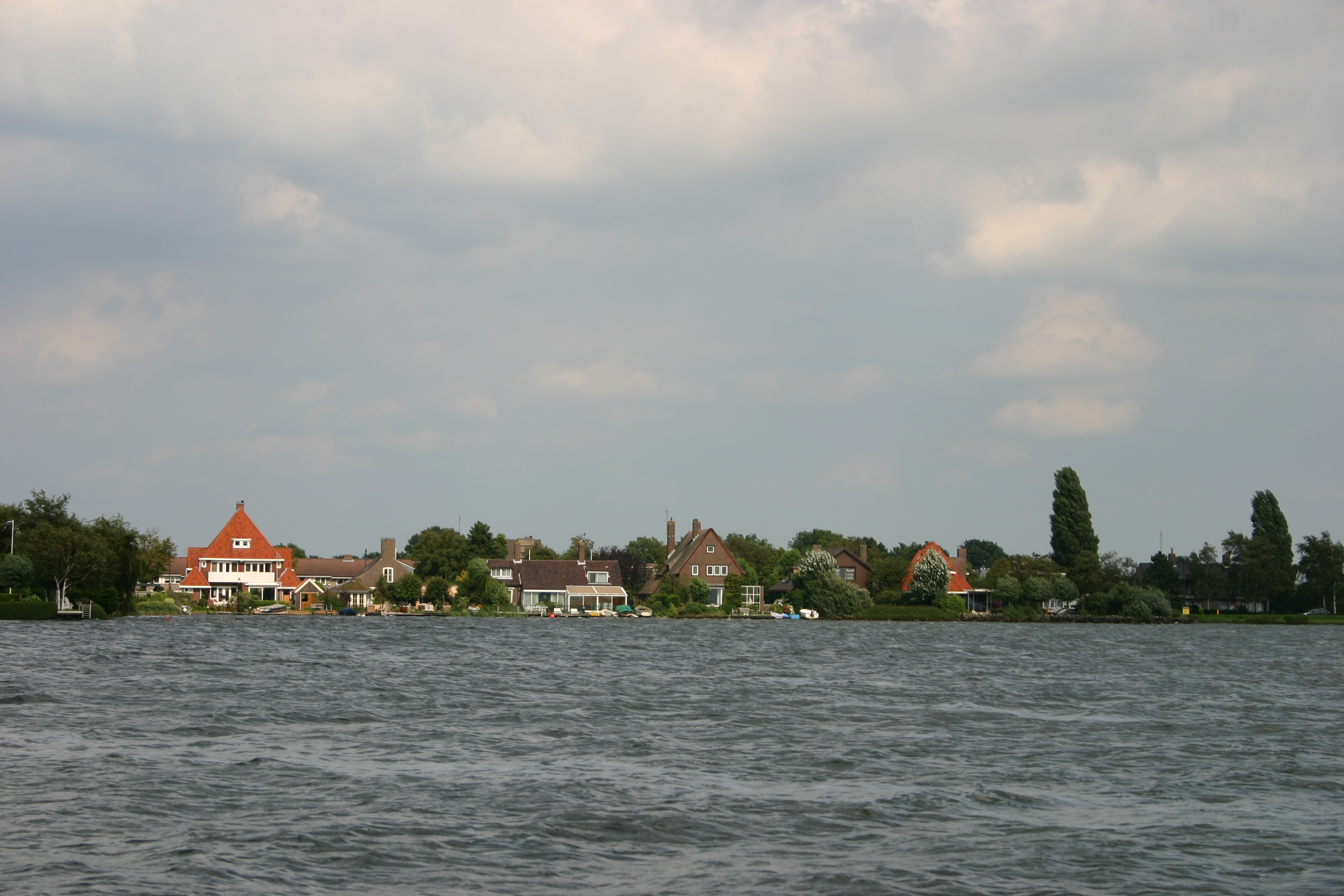 Westeinderplassen, Aalsmeer, the Netherlands. Aalsmeer is situated next to a lake called 'Westeinderplassen'. The lake is partially natural but most of it is a result of 'bog-mining'. Bog was dried and used as a fuel